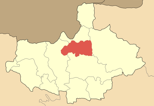 Locator map of Hersou municipality (Δήμος Χέρσου) at Kilkis perfecture, Greece.